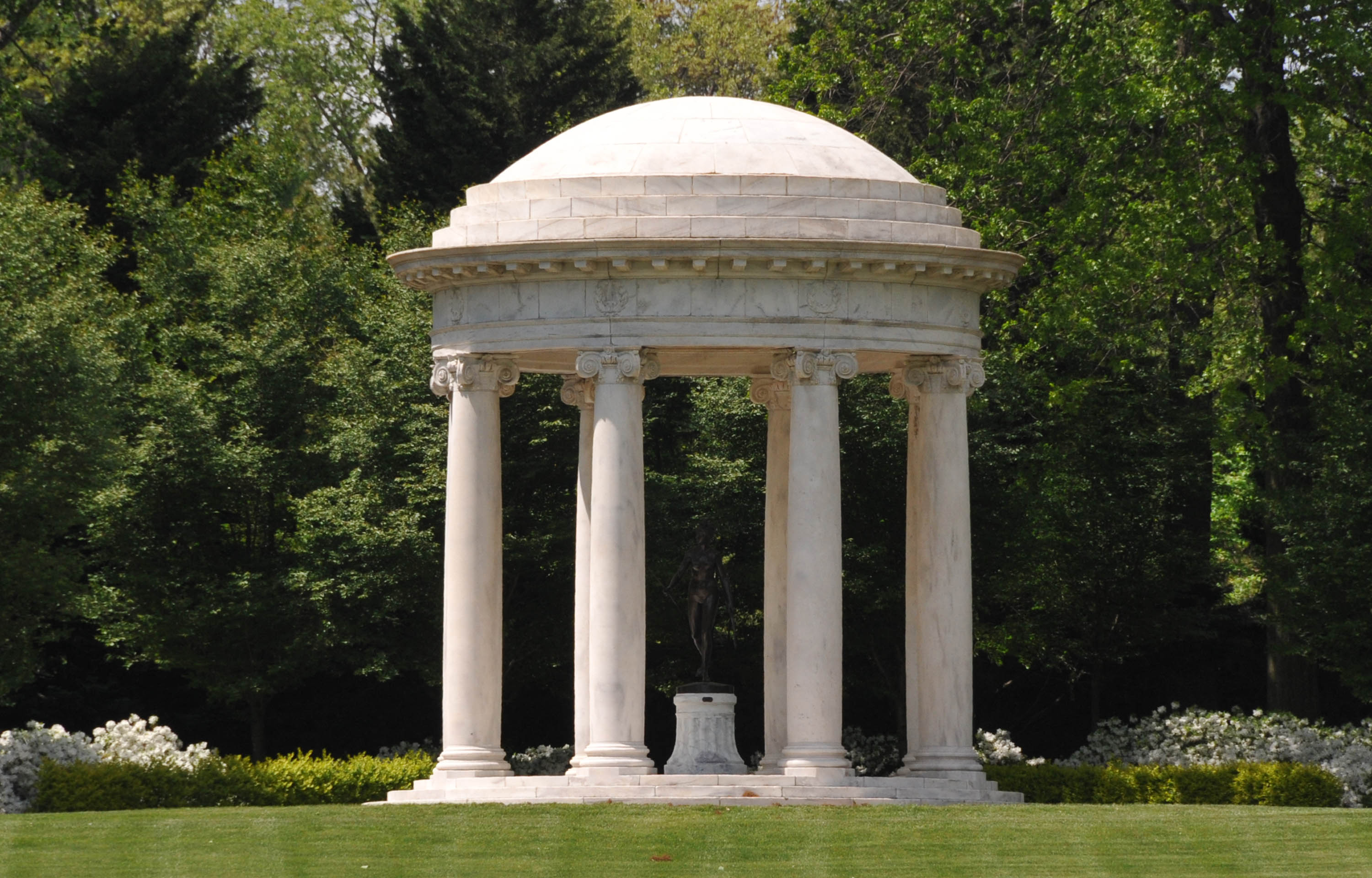 TEMPLE OF LOVE PATTERNED AFTER LE PETIT TRIANON IN VERSAILLES INSIDE IS A FULL SIZE STATUE OF DIANA THE HUNTRESS BY HOUDON